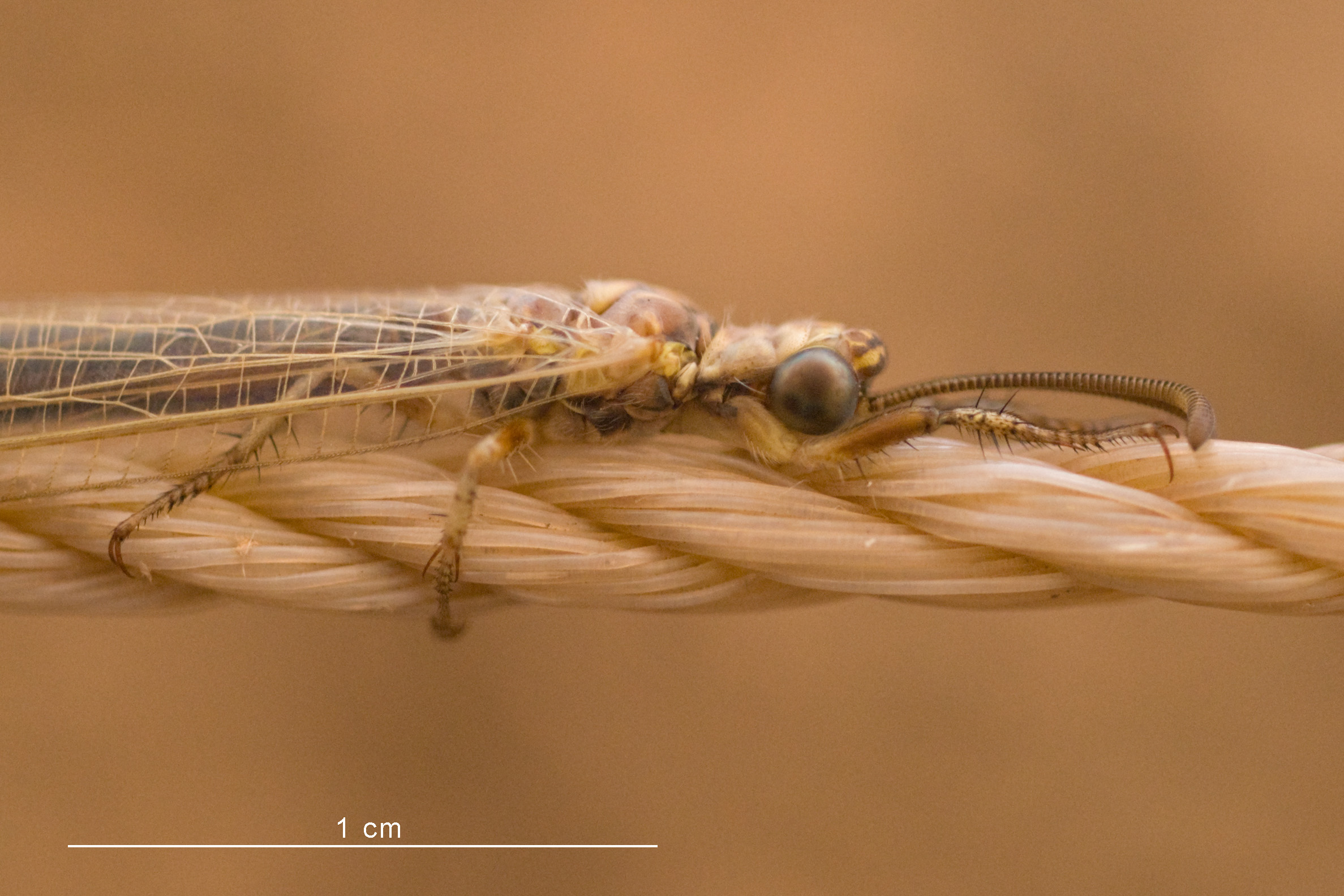 Thorax and head (with club-shaped antenna) of an unidentified species of antlion in sideview (Bobo-Dioulasso, Burkina Faso, October 2015).